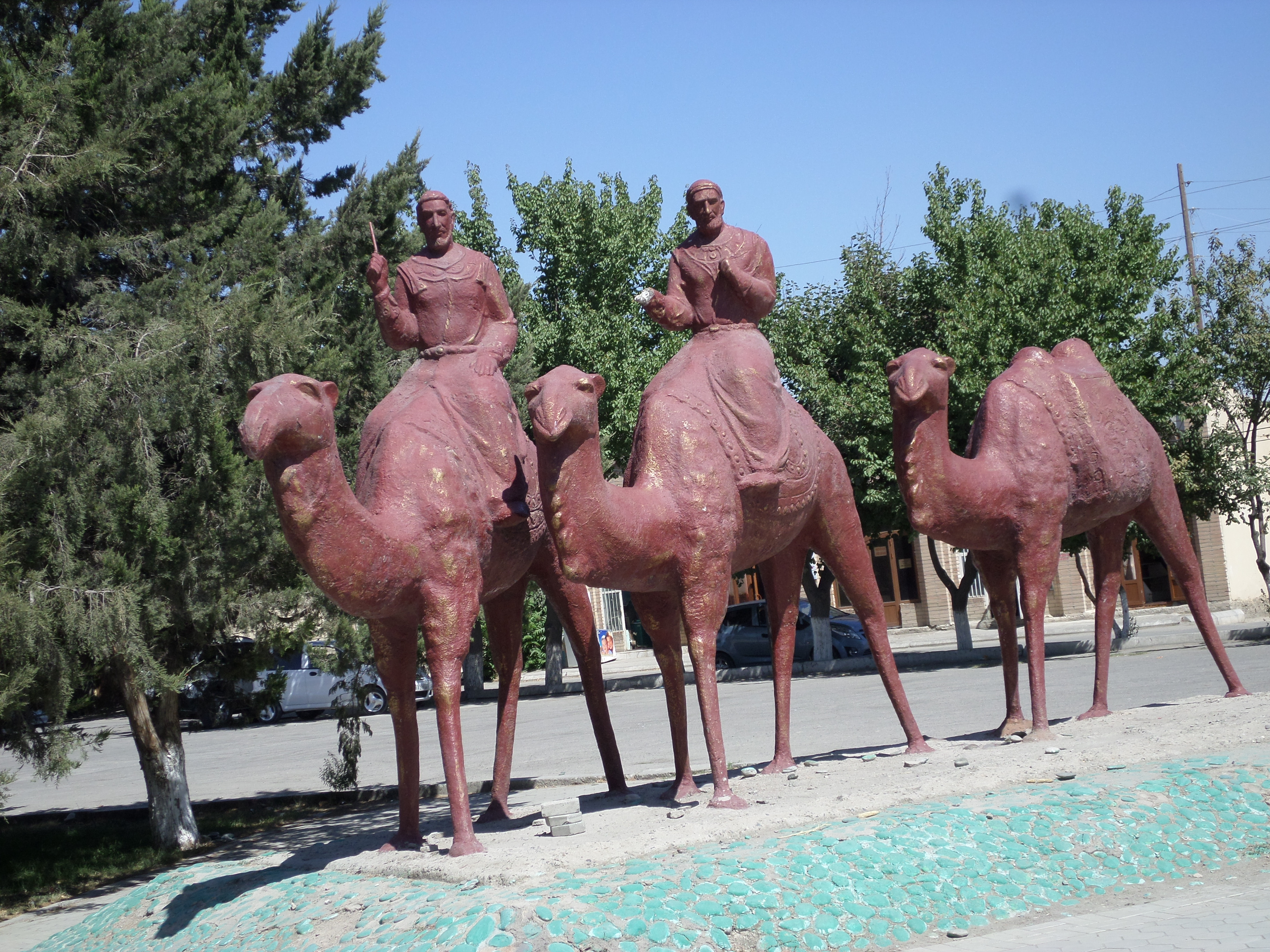 Mosque Khoja Ahrar